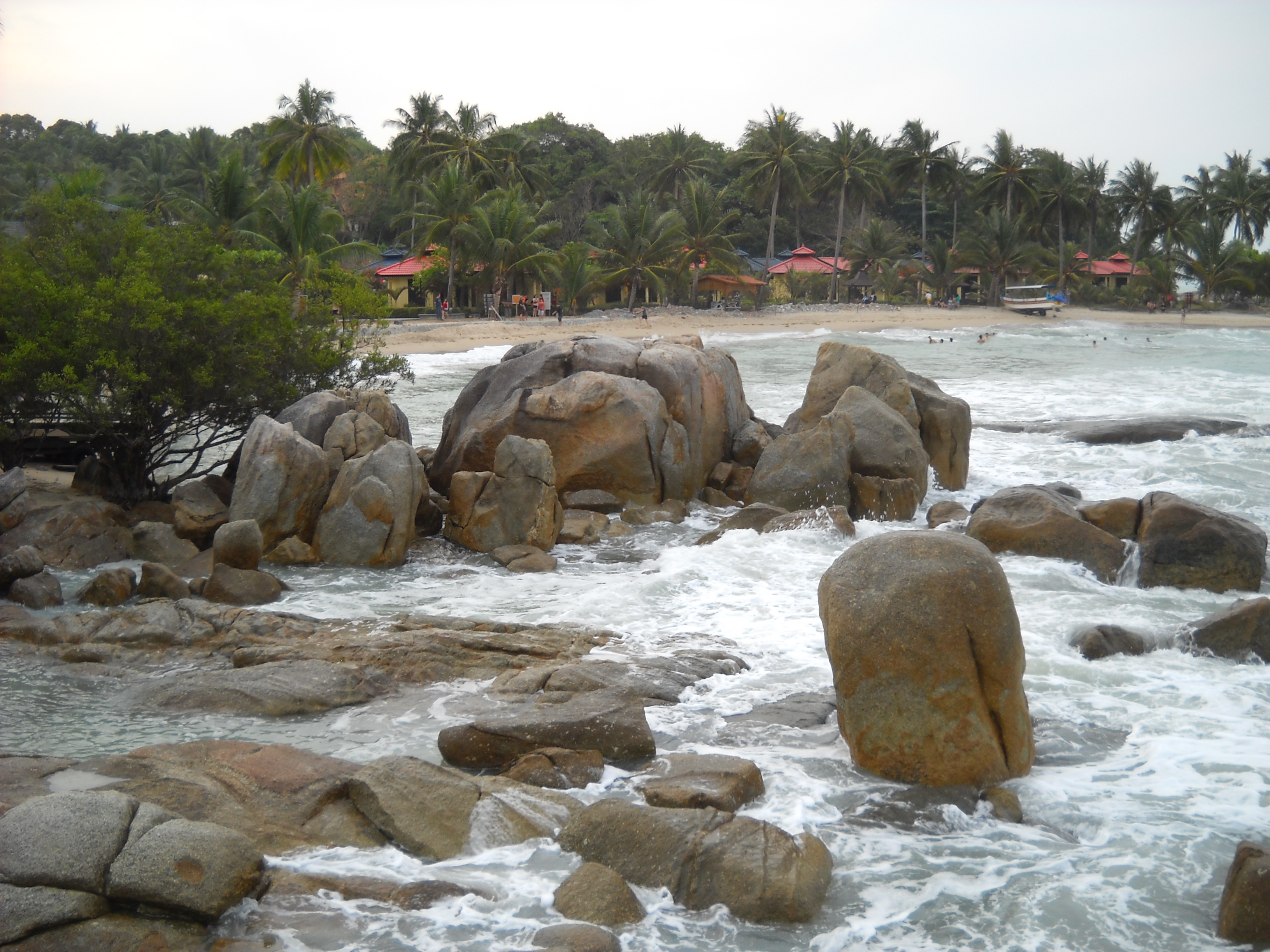 Parai Tenggiri Beach, Sungailiat, Bangka Island, Indonesia